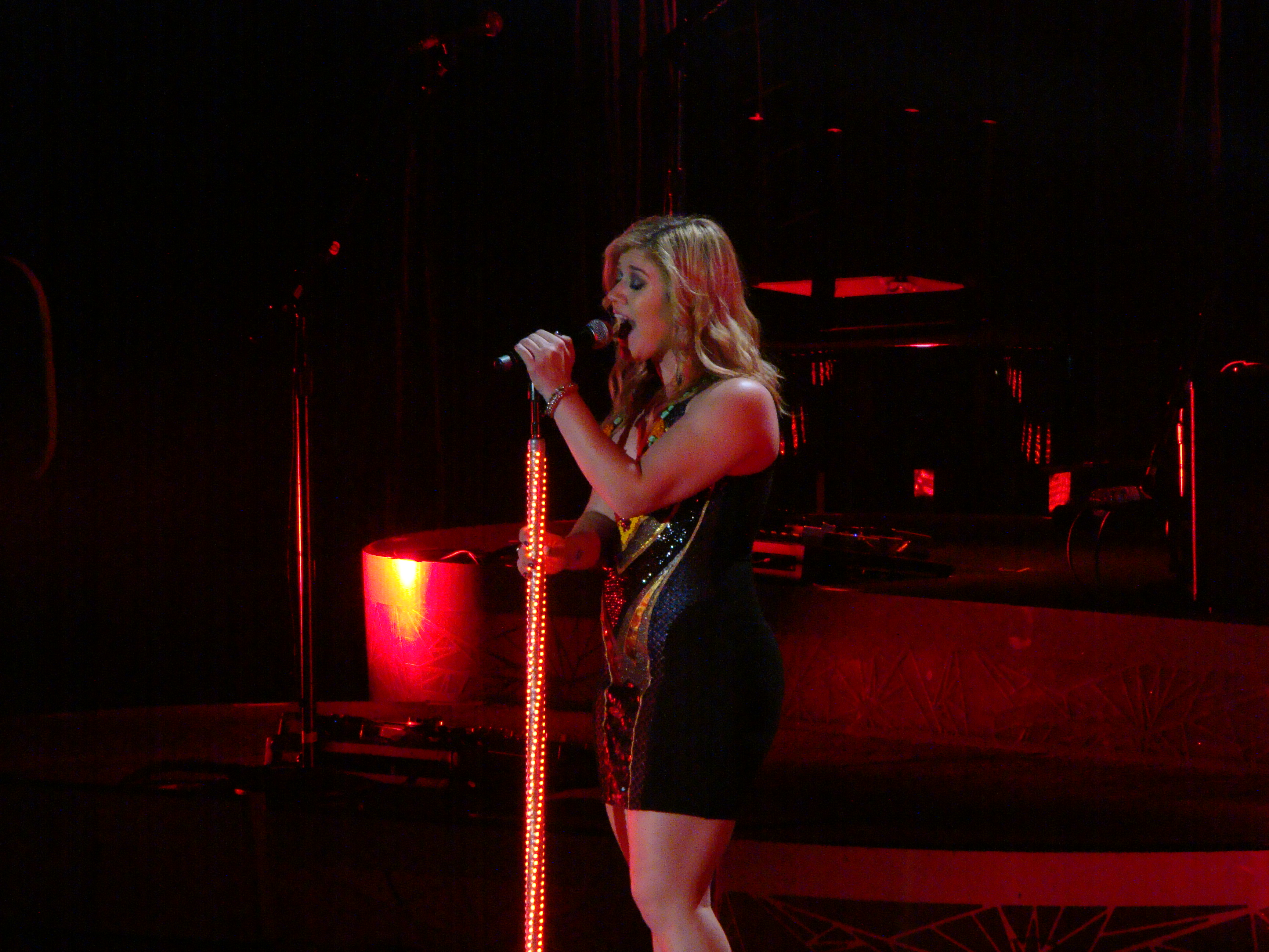 Kelly Clarkson